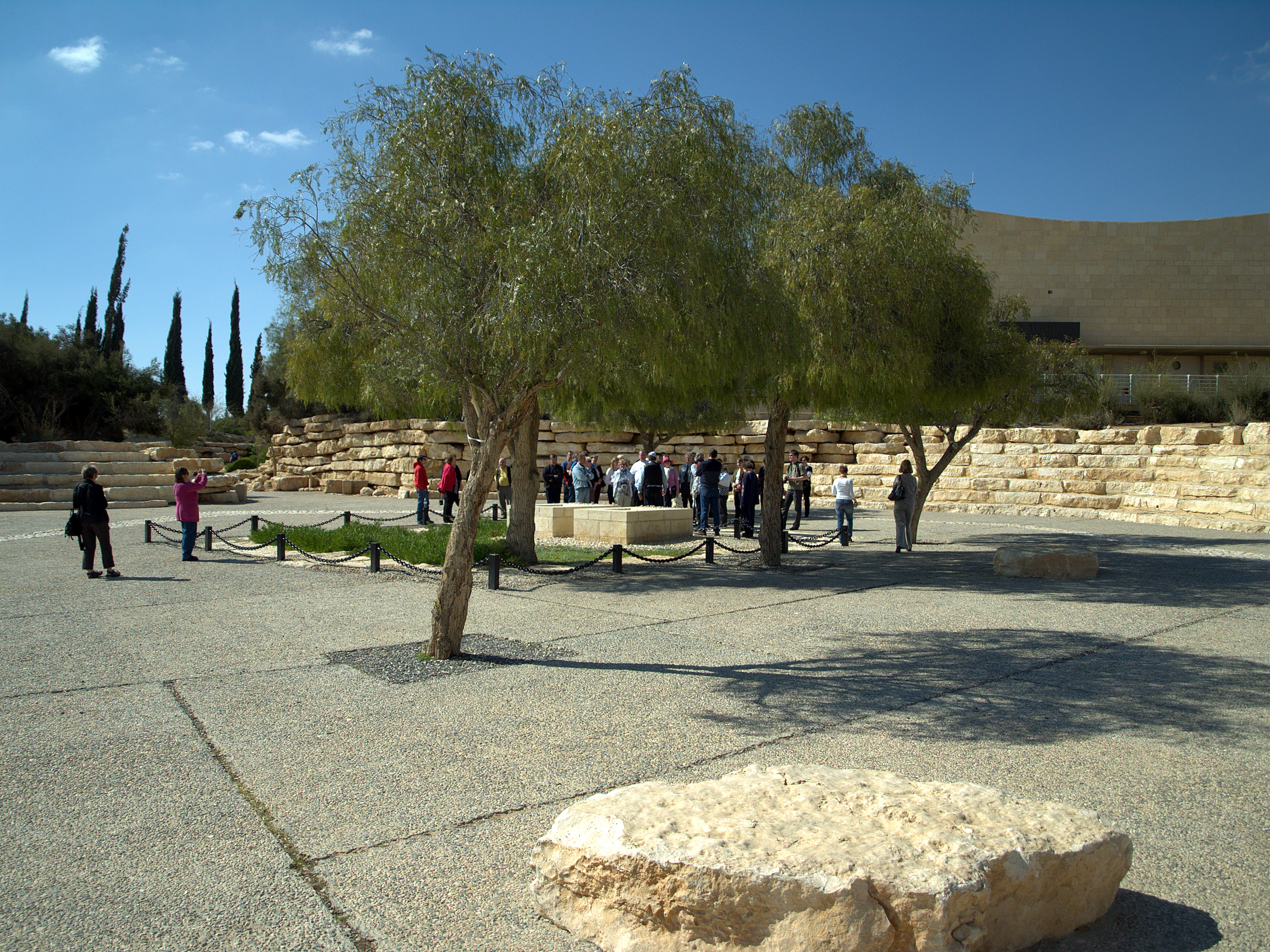 A crowd gathers around the graves of Paula and David Ben Gurion at Midreshet Ben Gurion. Located in the Negev desert of Israel.